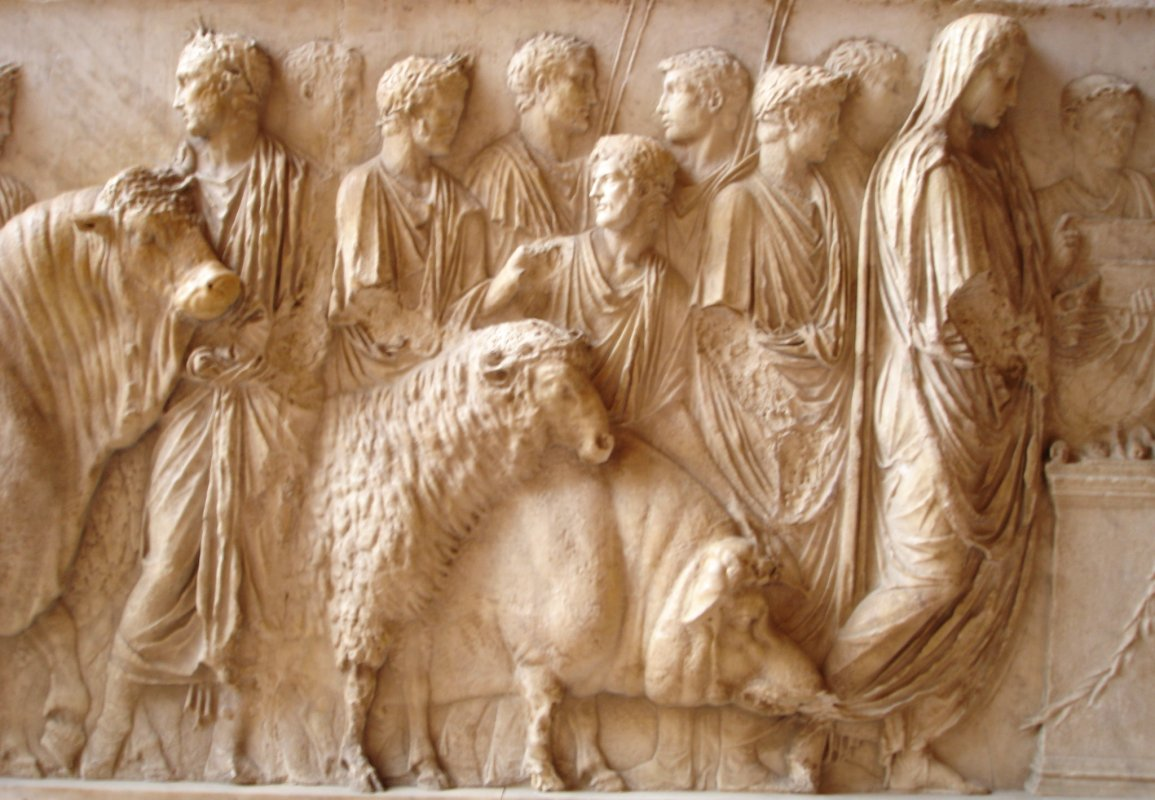 Suovetaurilia (sacrifice of a pig, a sheep and a bull) to the god Mars, relief from the panel of a sarcophagus. Marble, Roman artwork, first half of the 1st century CE.